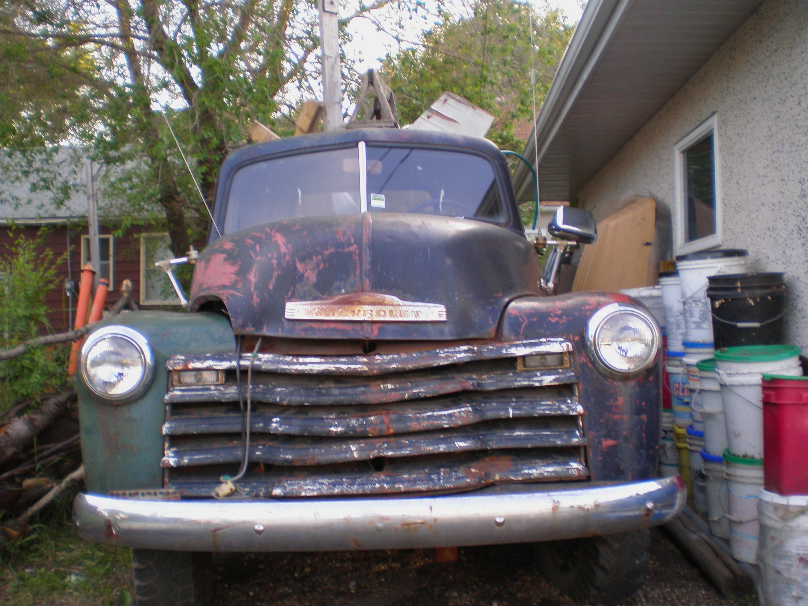 Old Dump Truck.Foot pedal start.Crank start if battery dies.(@6 volts) Runs good.(People keep swiping the battery.)